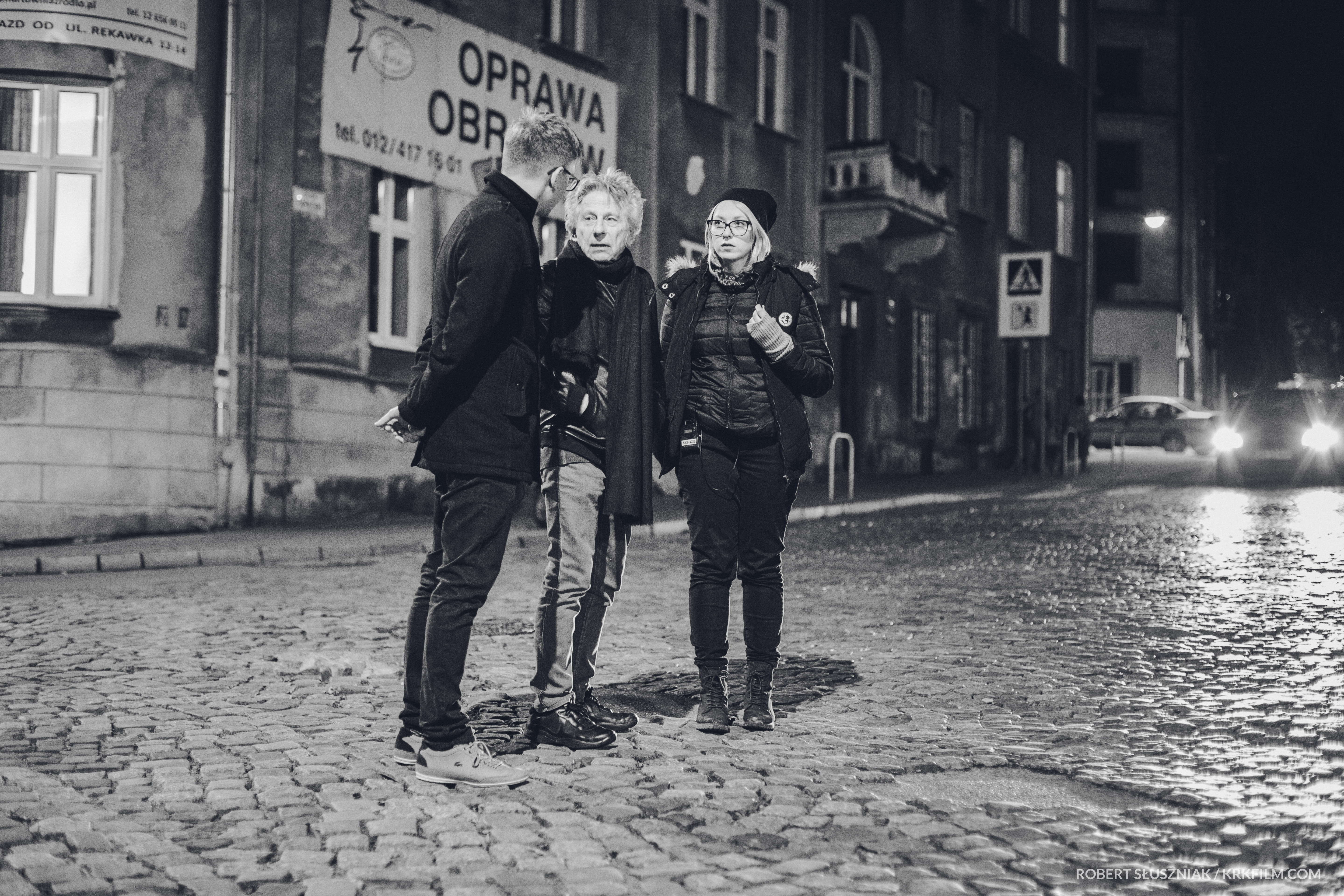 Mateusz Kudla, Roman Polanski and Anna Kokoszka-Romer on the set of "Polanski, Horowitz. The Wizards from the Ghetto" in the former Kraków Ghetto (dir. Mateusz Kudla, Anna Kokoszka-Romer). Photo by Robert Sluszniak (KRK FILM)